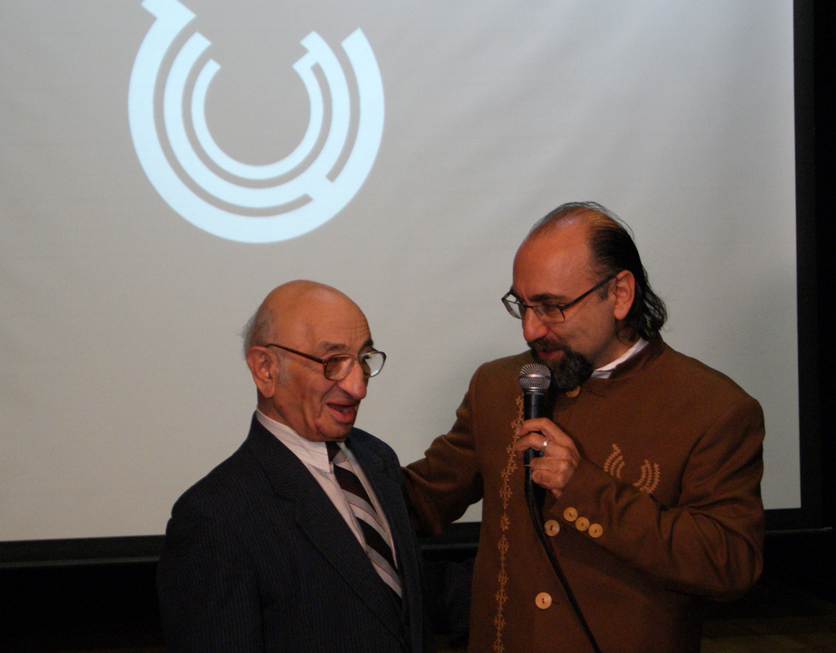 Stepan Shakaryan & Nareg Hartounian